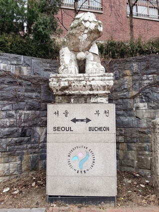 2016년 3월 12일